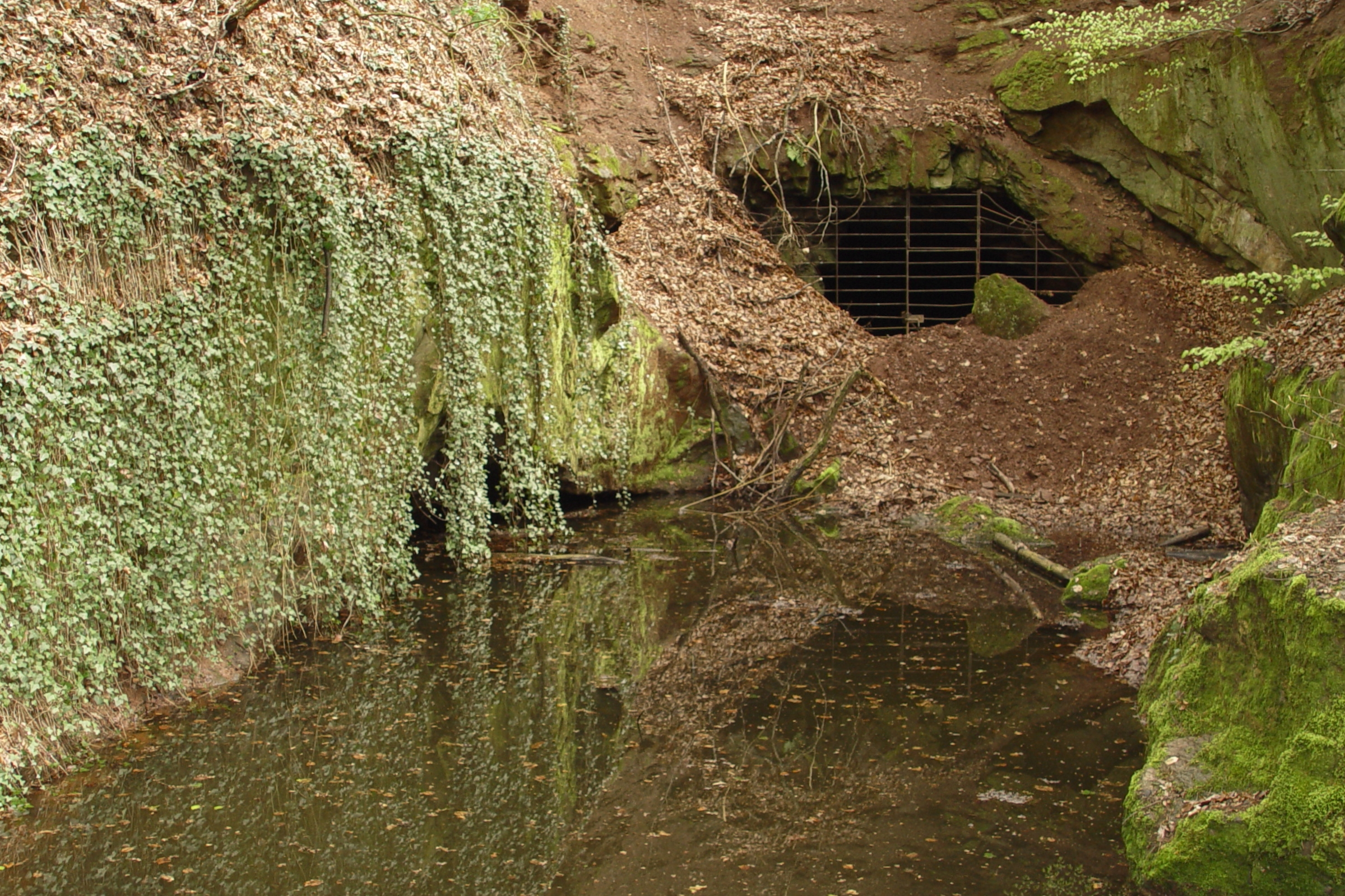 Aschaffenburg-Gailbach, protected landscape part 5 (LB-01419), according to decree by the city of Aschaffenburg from 01.02.1995, modified 16.07.2001, Geotope No. 661G002, cave with 2 parts